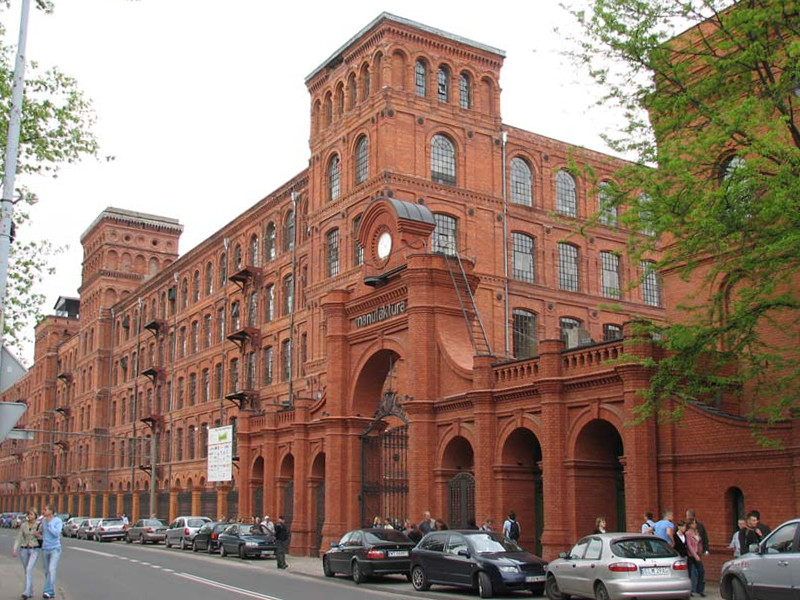 Gate to the former textile empire of Kalman Izrael Poznański at Ogrodowa Street in Łódź. Currently, the cultural, shopping and entertainment center "Manufaktura".